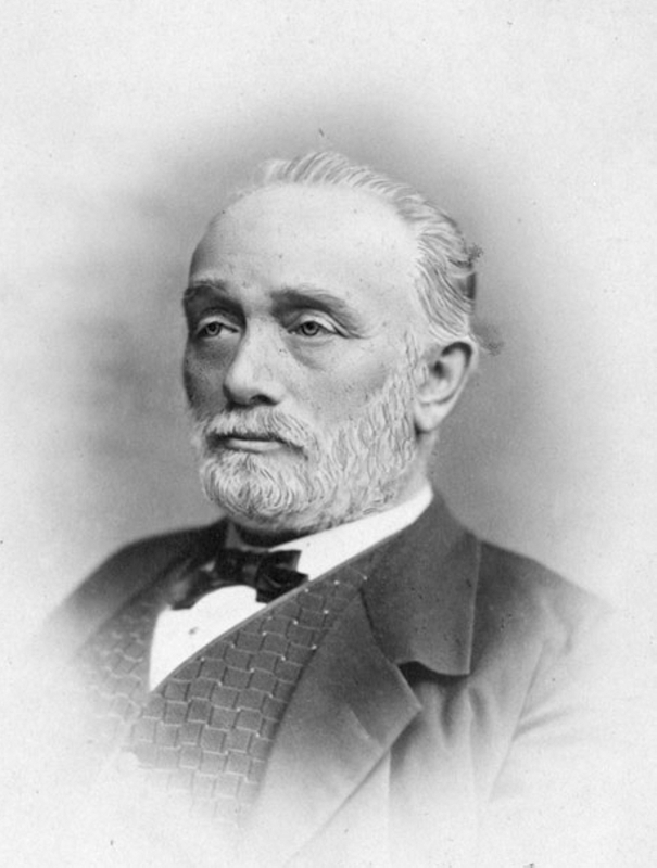 Friedrich Karl Christian Ludwig Büchner (1824–1899), German philosopher, physiologist and physician.